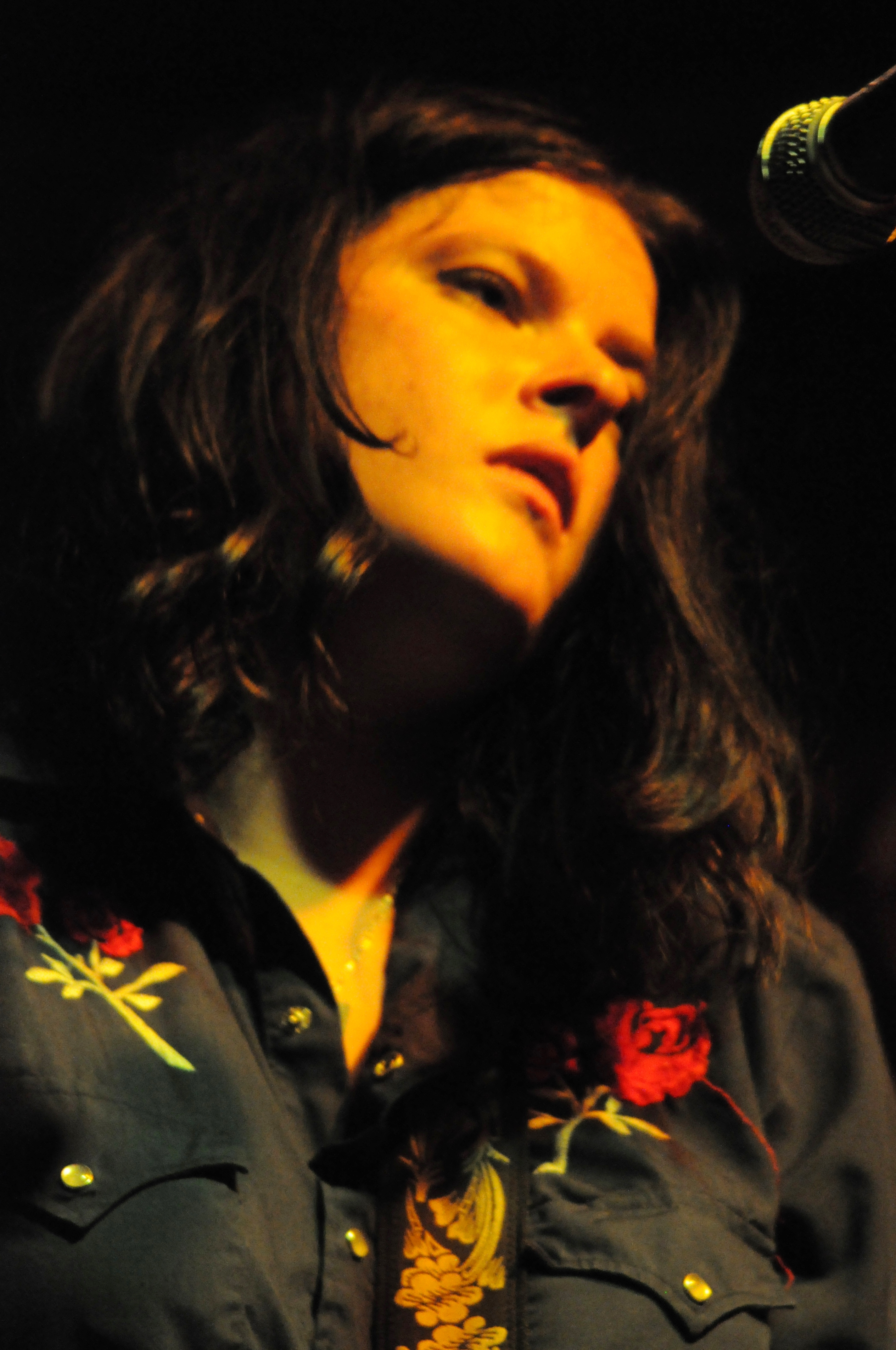 Star Anna performing with her group Star Anna and the Laughing Dogs at Conor Byrne, Ballard, Seattle, Washington as part of Reverb.